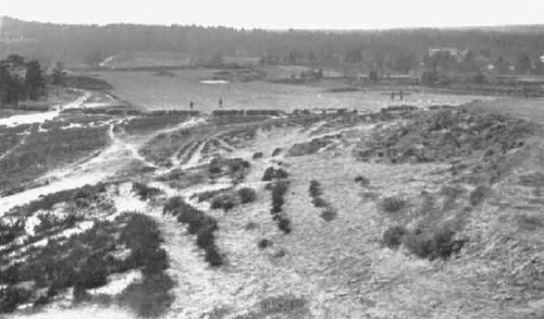 Sunningdale, 5th Hole